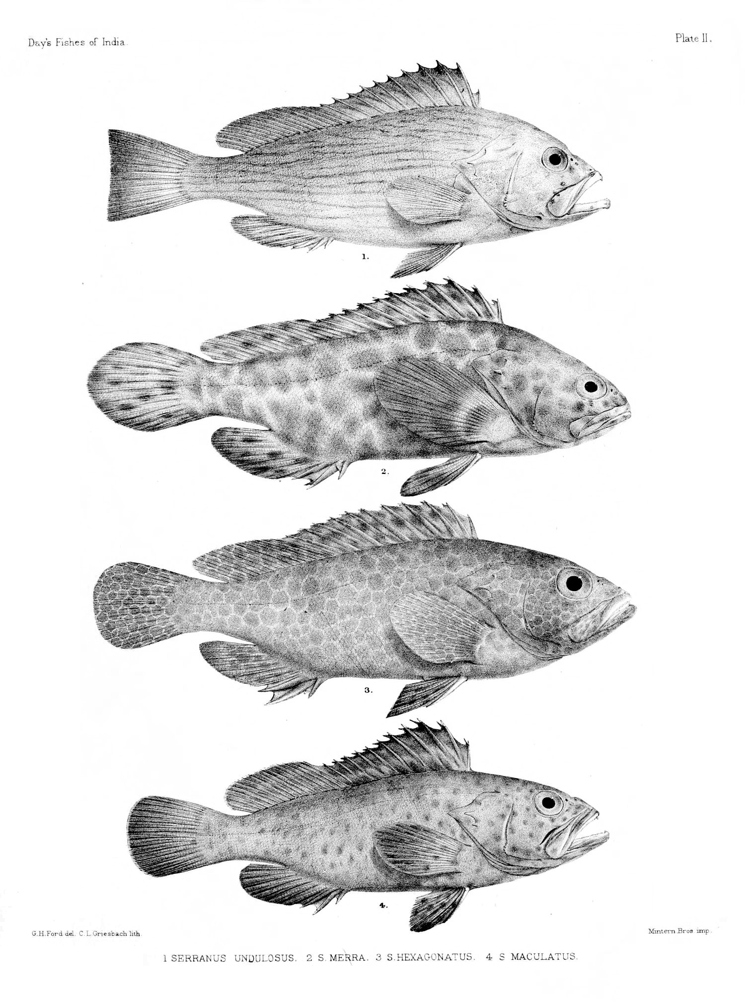 1 – Serranus undulosus (=Mycteroperca acutirostris), 2 – Serranus merra (=Epinephelus merra), 3 – Serranus hexagonatus (=Epinephelus hexagonatus), 4 – Serranus maculatus (=Epinephelus maculatus).